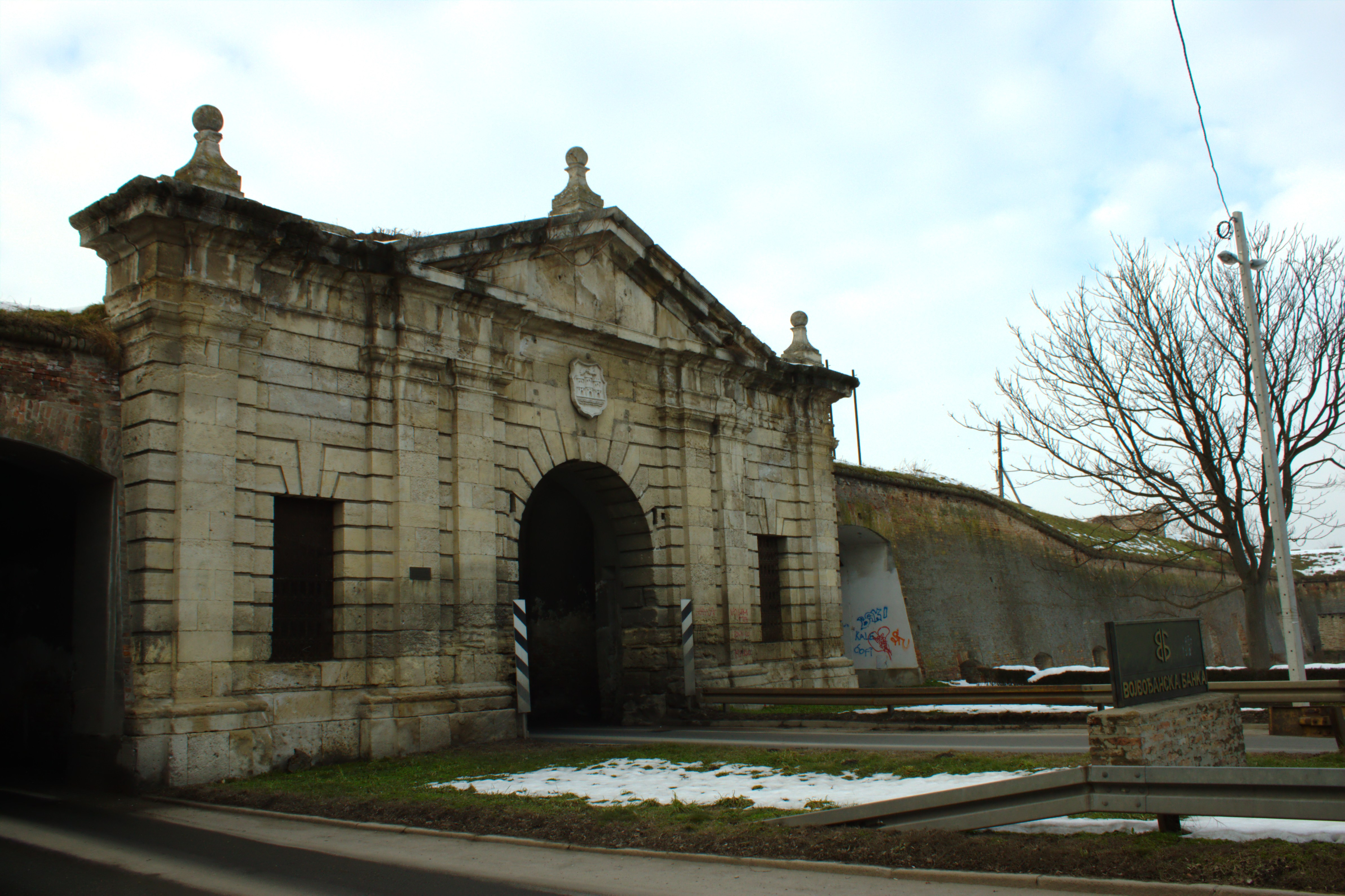 Belgrade gate of Petrovaradin fortress seen from Sremski Karlovci side, Serbia